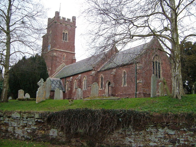 Sowton church. St Michael's, set above the village street in this still rural village between Exeter and its airport. From ESE.